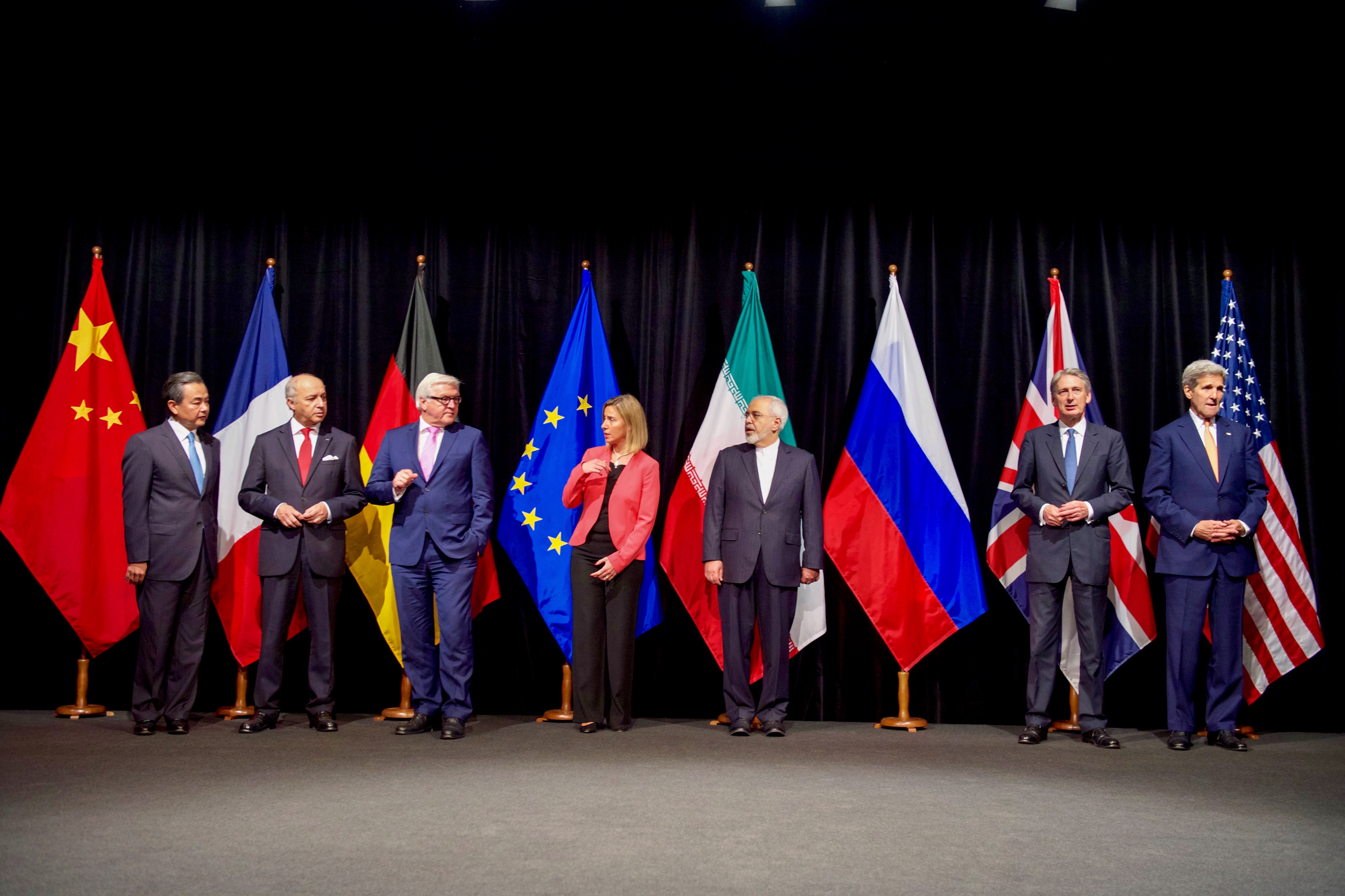 Secretary Kerry posed with his fellow E.U., P5+1, and Iranian counterparts at the Austria Center in Vienna, Austria, on July 14, 2015, for a group photo shortly after the formal announcement of the agreement concluding the Iranian nuclear negotiations. [State Department photo/ Public Domain]